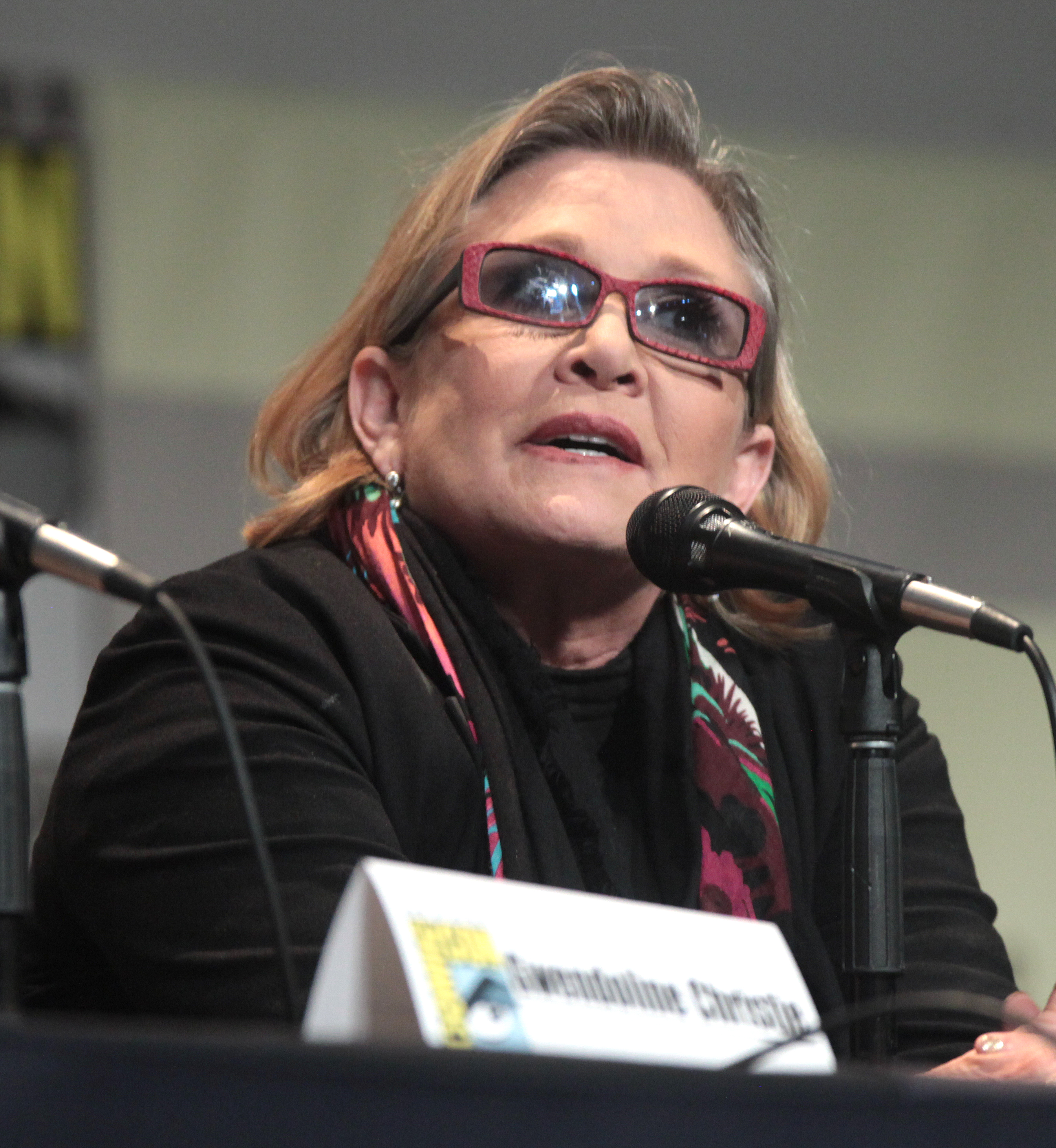 Carrie Fisher speaking at the 2015 San Diego Comic Con International, for "Star Wars: The Force Awakens", at the San Diego Convention Center in San Diego, California.